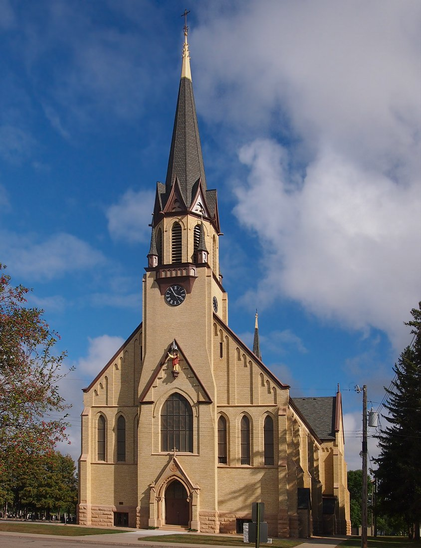 Church of the Sacred Heart, 110 3rd Avenue NE, Freeport, Minnesota, USA. Viewed from the west.